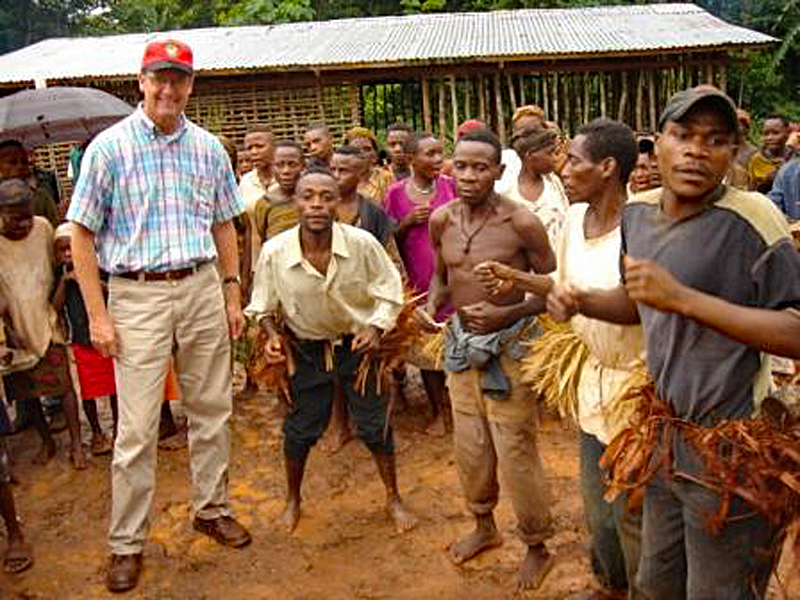 U.S. Ambassador R. Niels Marquardt and Baka Pygmy dancers in the East Province of Cameroon, June 2006.